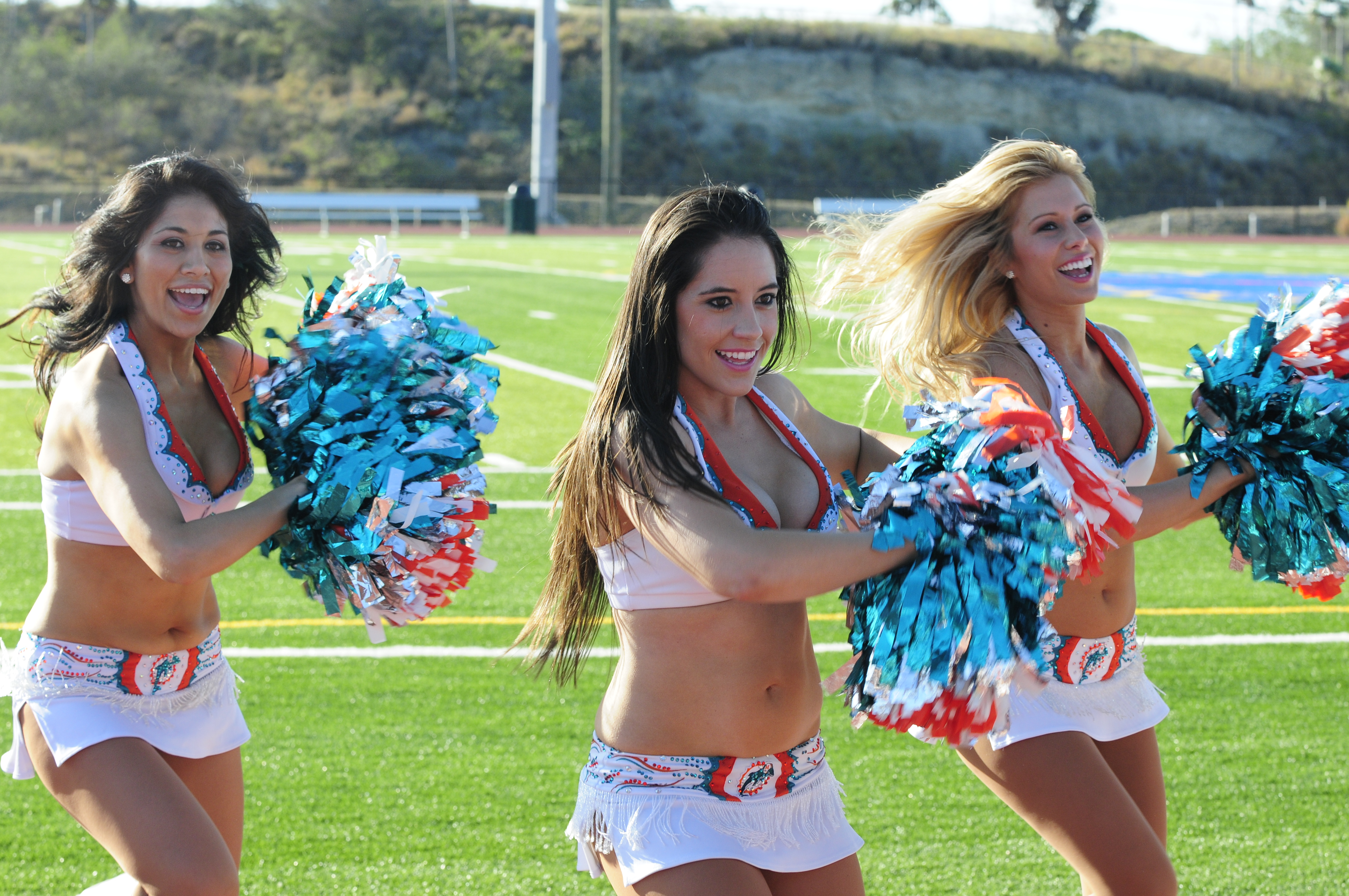 Miami Dolphins cheerleaders visit Guantanamo.